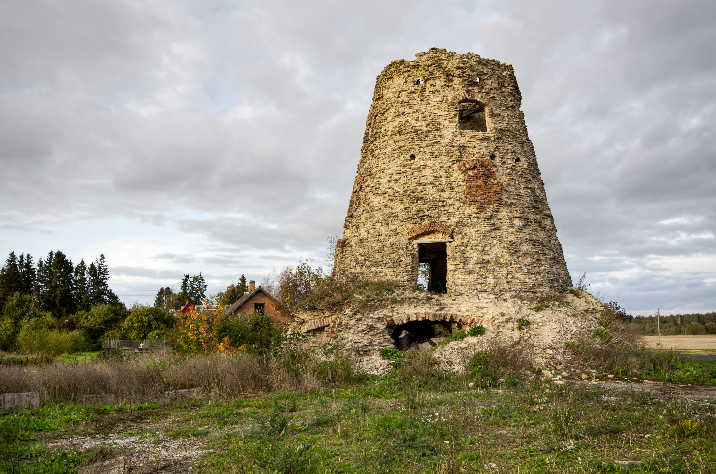 Ruins of Kiikla Manor windmill